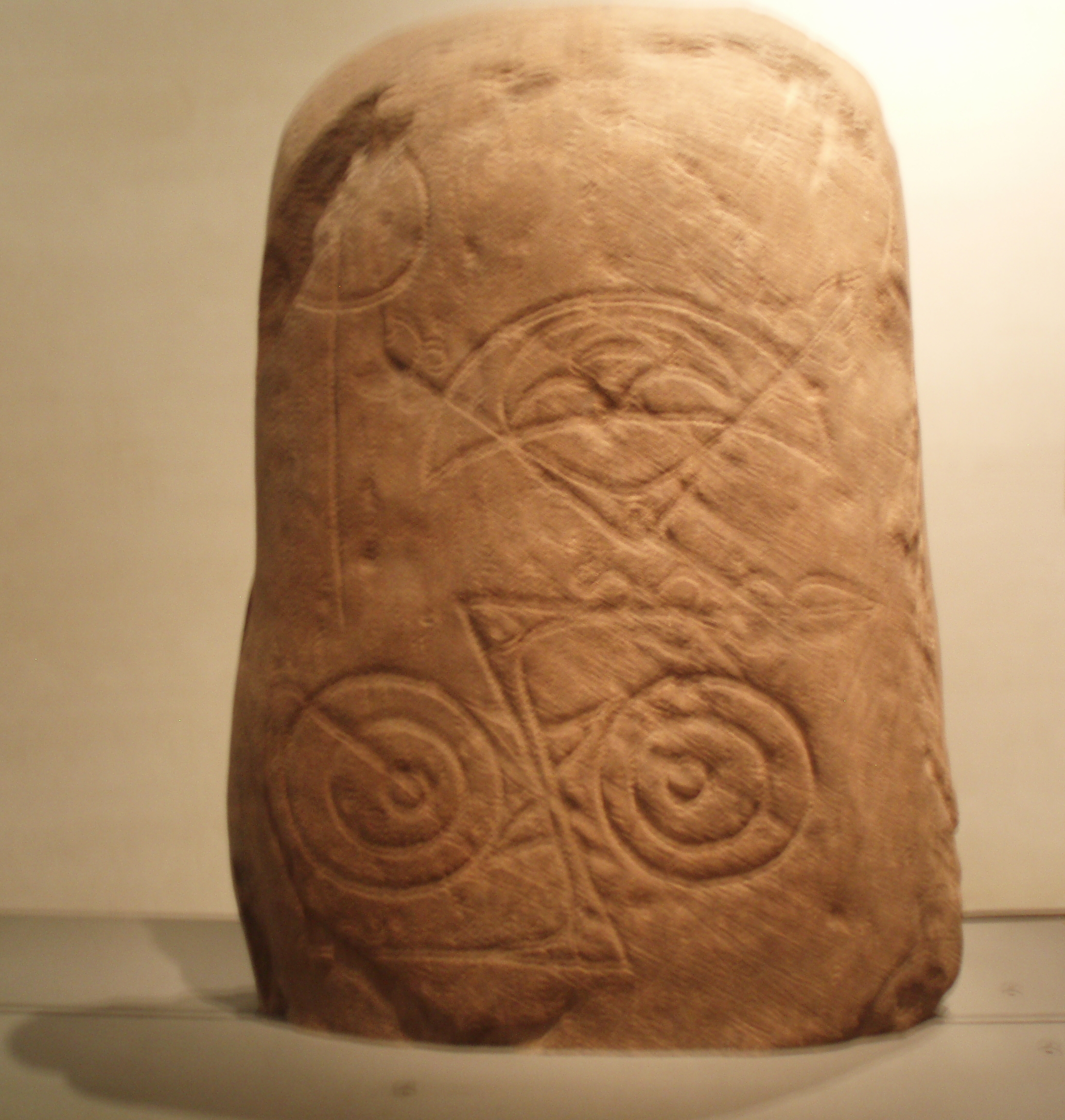 Invereen stone, Pictish class I sculptured stone showing Double-disc and z-rod symbol and crescent and v-rod symbol. Found during ploughing in 1932. On display at Museum of Scotland, Edinburgh.